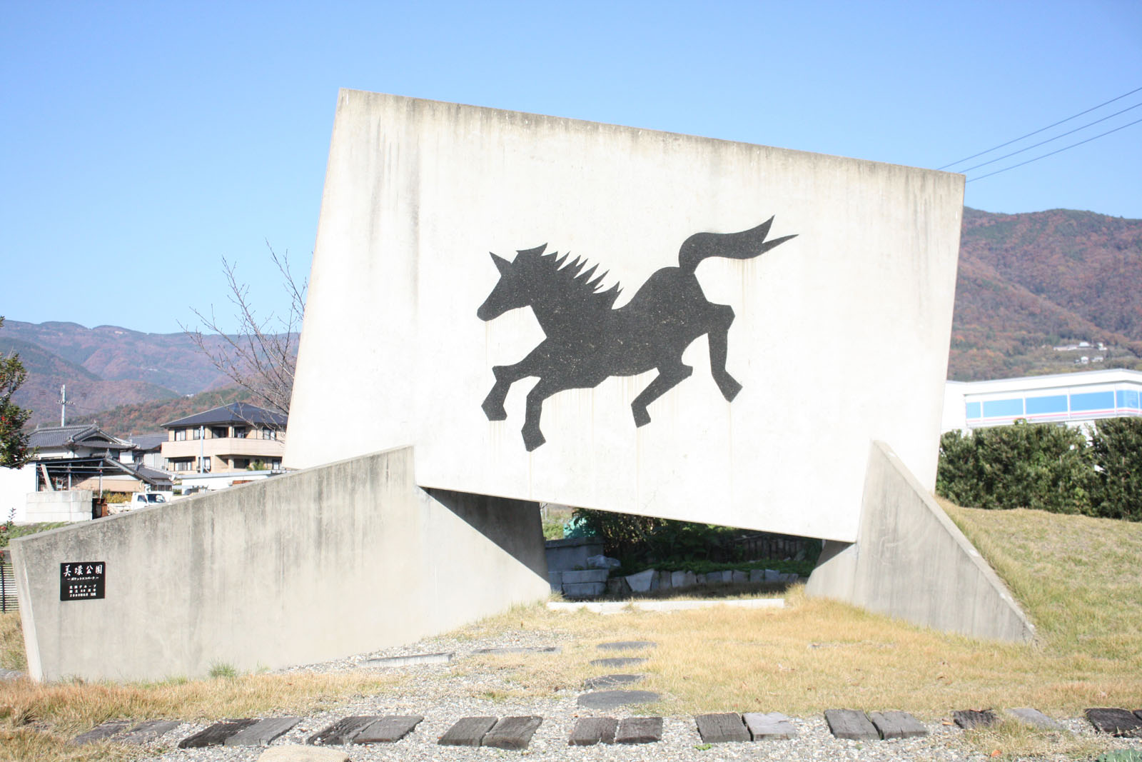 Horse depicted in art in park near Lawson convenience store. Mima Town, Mima City, Tokushima Prefecture, Japan